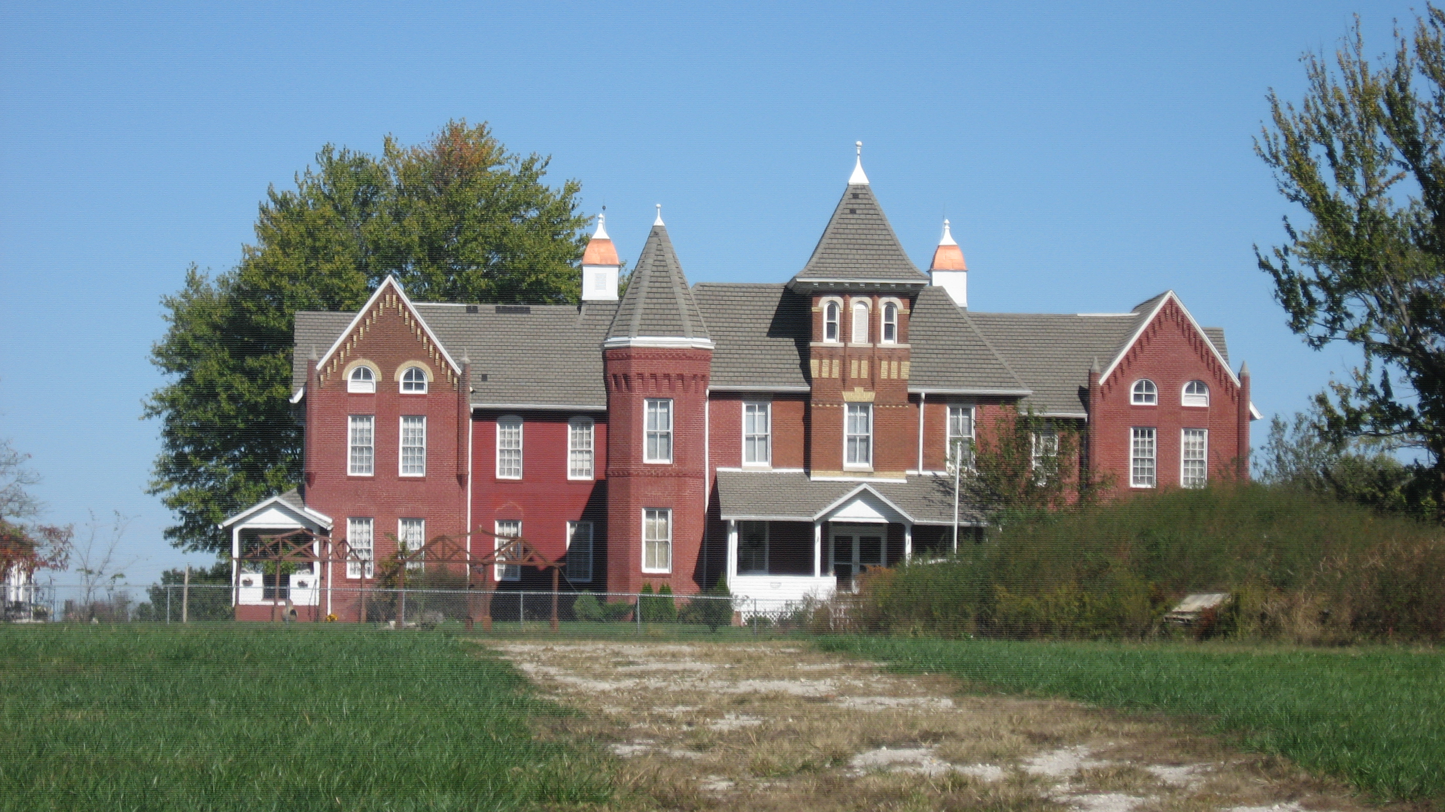 Front of the Sullivan County Poor Home, located at 1447 E. Washington Street east of Sullivan in Hamilton Township, Sullivan County, Indiana, United States. Built in 1896, it is listed on the National Register of Historic Places.